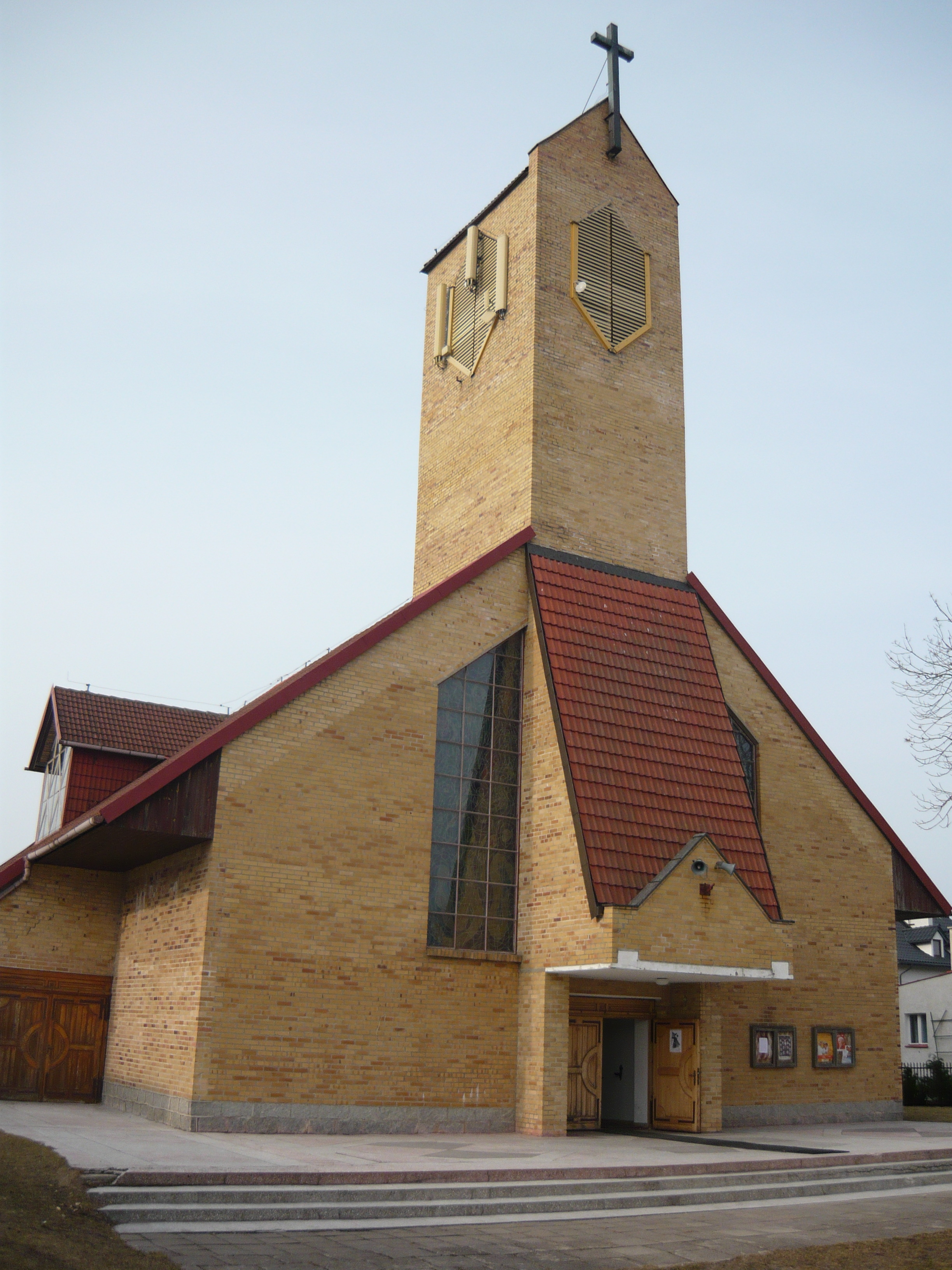 The St. Maksymilian Kolbe's Church in Darłówko (district of Darłowo).